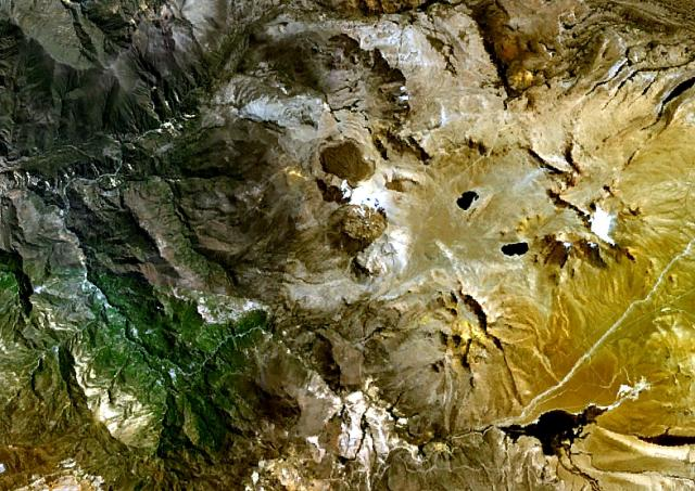 The Ticsani dacitic lava dome complex (center) lies ESE of Arequipa SE of the Río Putina (upper left) about 50 km east of the main volcanic front of the Peruvian Andes. A fresh-looking lava field forms the dark-colored area north of the main edifice in this NASA Landsat image (with north to the top). No historical eruptions are known from Ticsani, but fumarolic activity continues.